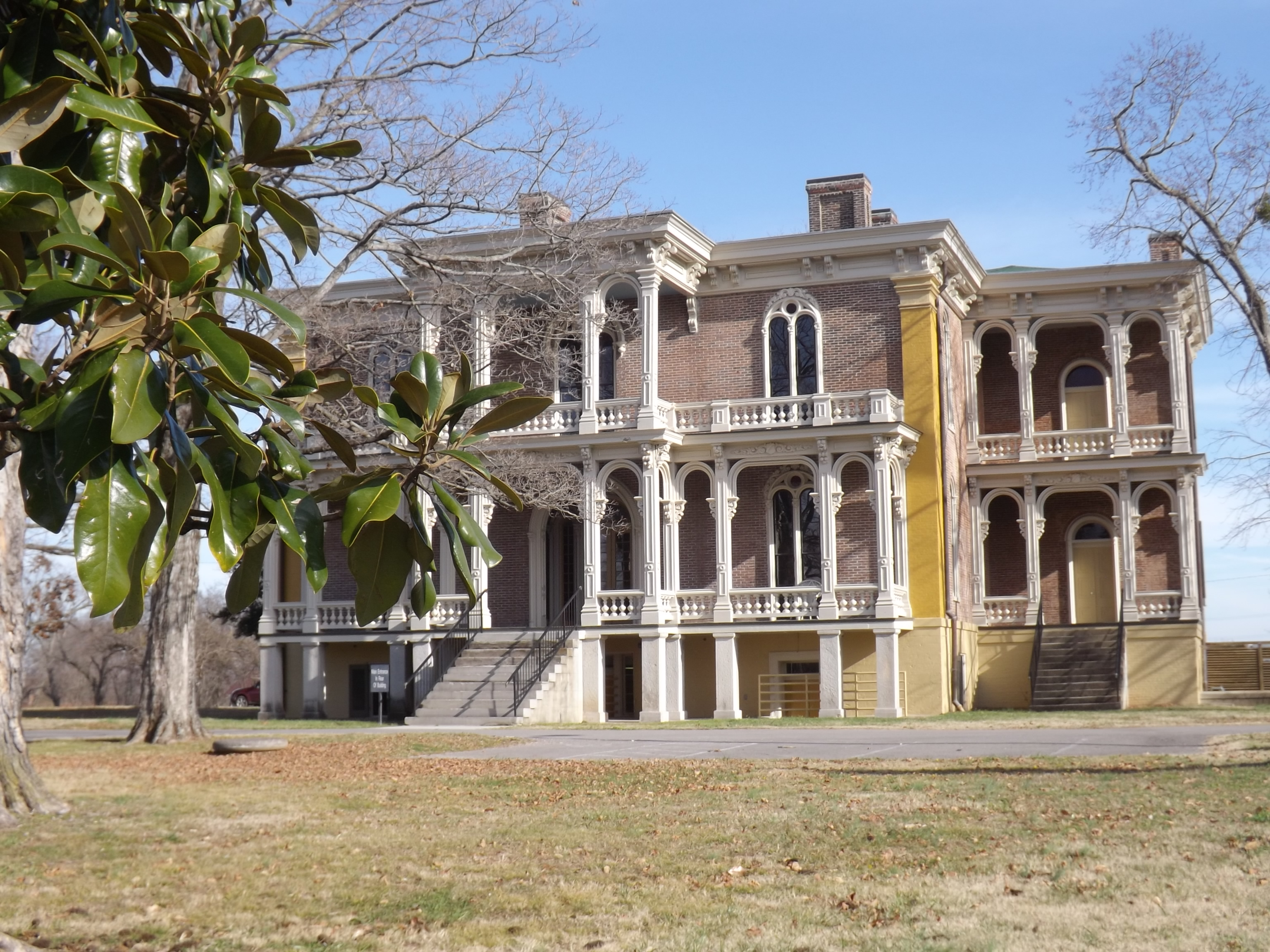 Clover Bottom Mansion, 2930 Lebanon Rd. Donelson